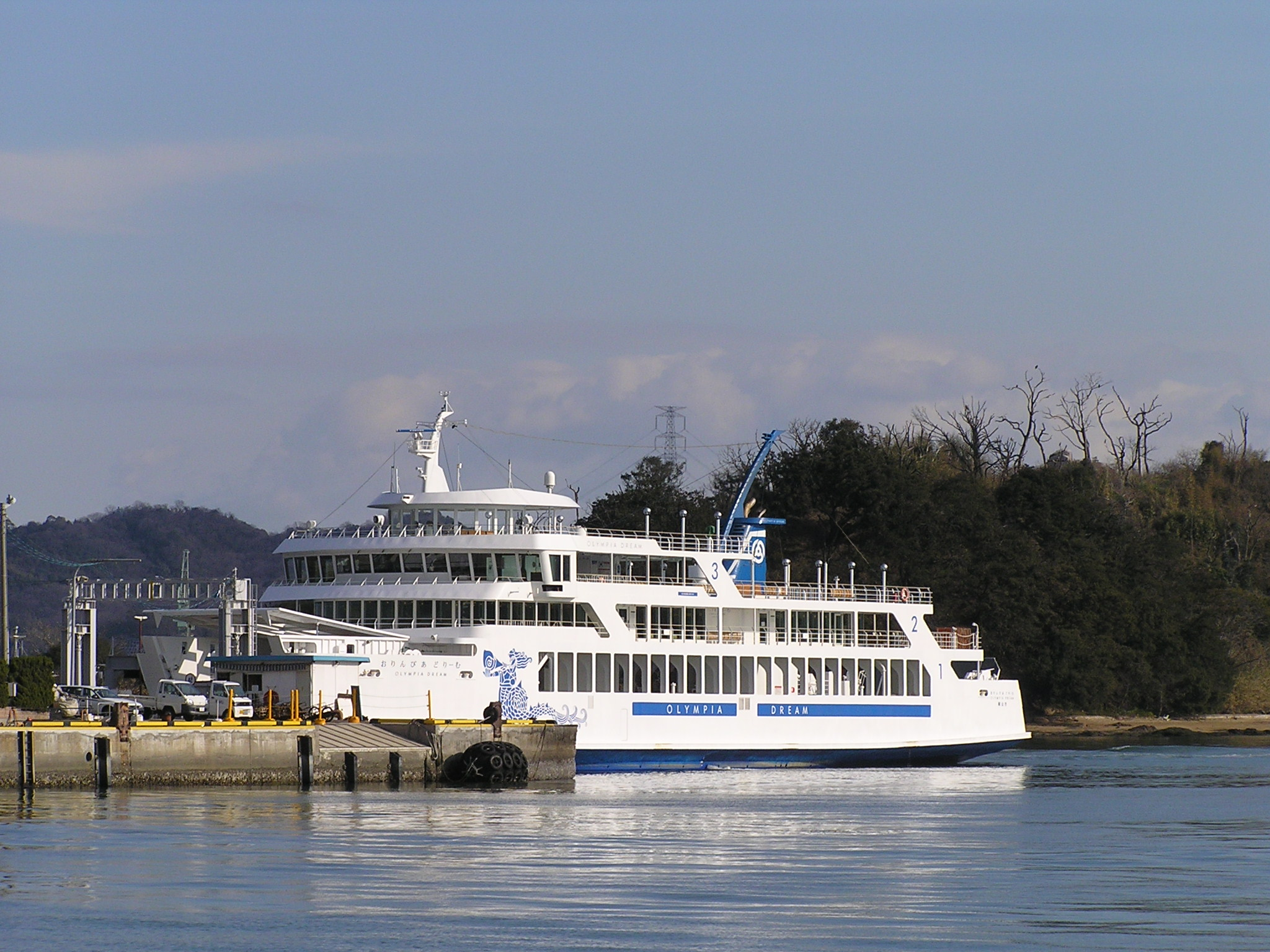 OLYMPIA DREAM that comes alongside the pier to Okayama port IMO number: 8998526 Callsign: JD2113